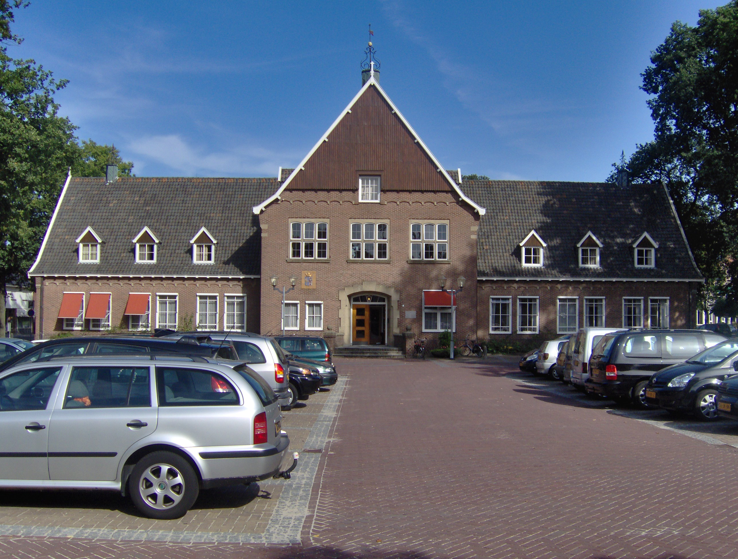 Former town hall of the former municipality of Weerselo, now municipality of Dinkelland in the province of Overijssel, the Netherlands